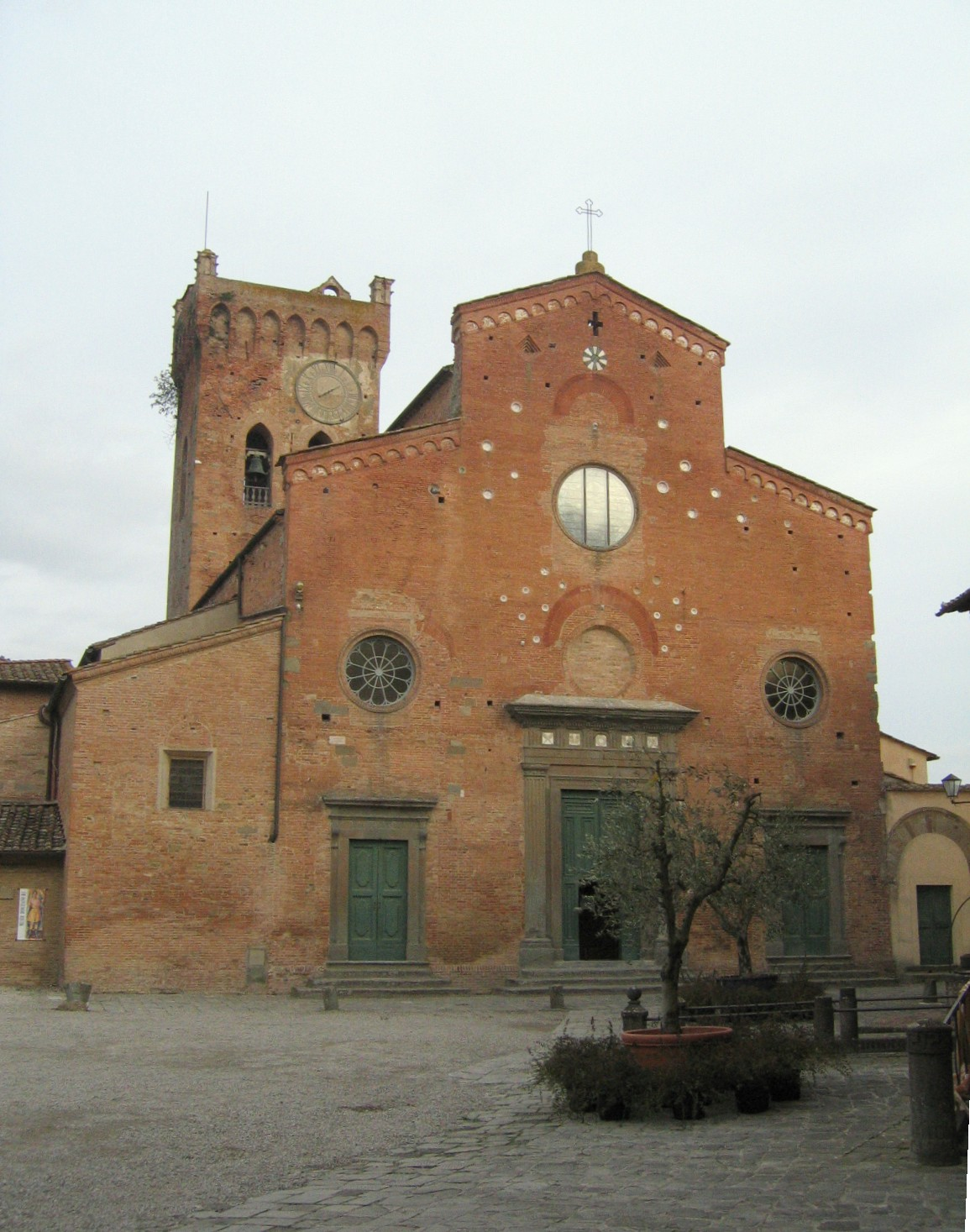 Cathedral of San Miniato